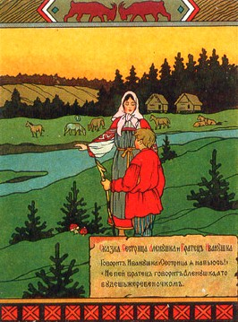 Postcard. Russian fairy tale